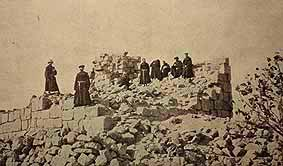 The ruins of al-Burj (the Tower) in Beitin. Permission This image was taken in the British Mandate of Palestine in 1935 and has been in the public domain since 1985, because its 50-year expiration term has expired.